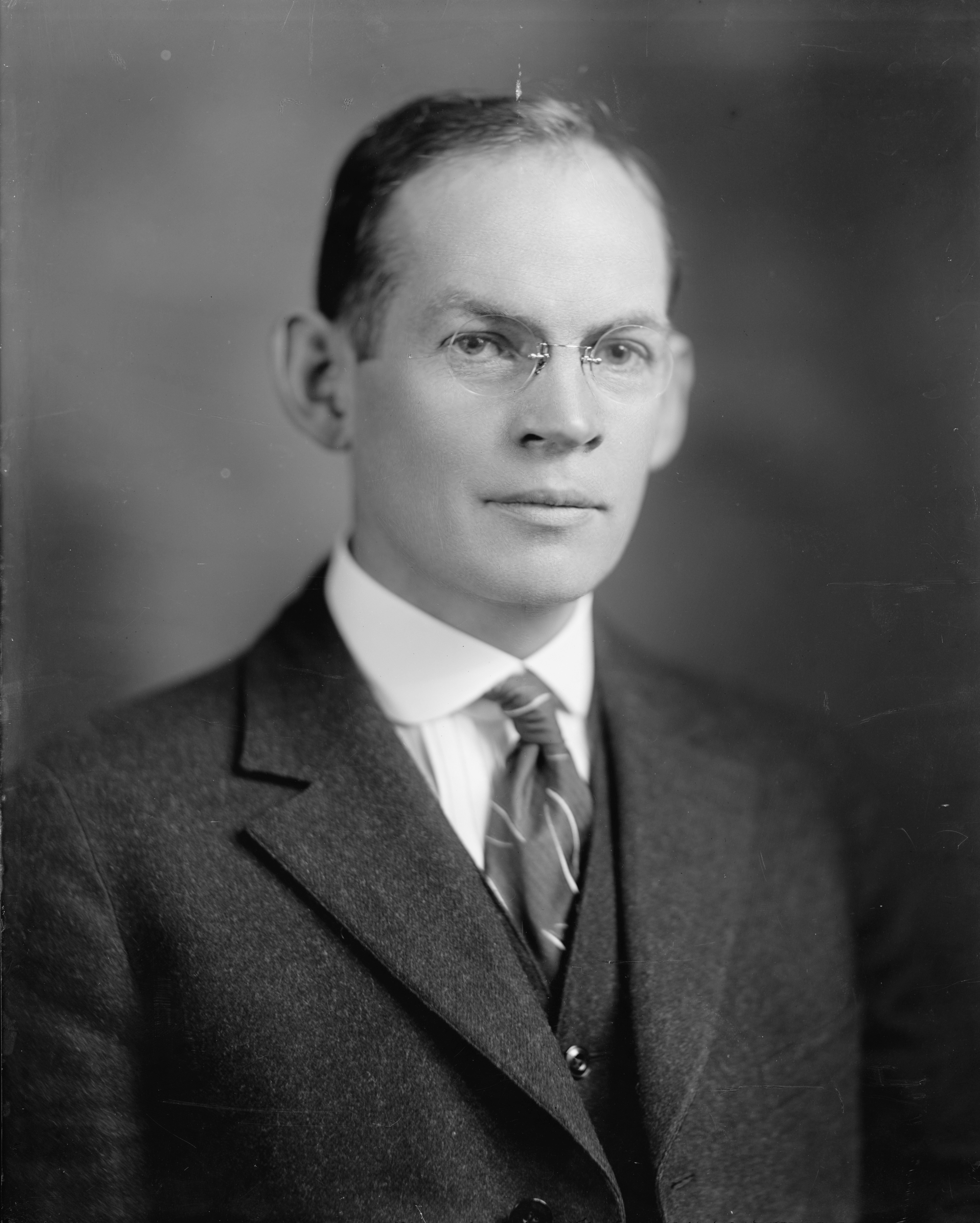 Portrait of Charles Roy Nasmith, photographed by Harris & Ewing, Inc.